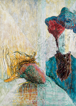 Painting by Ilka Gedő at a private collection DOUBLE SELF-PORTRAIT 1985, Oil on photographic paper laid down on canvas, 58 x 42 cm